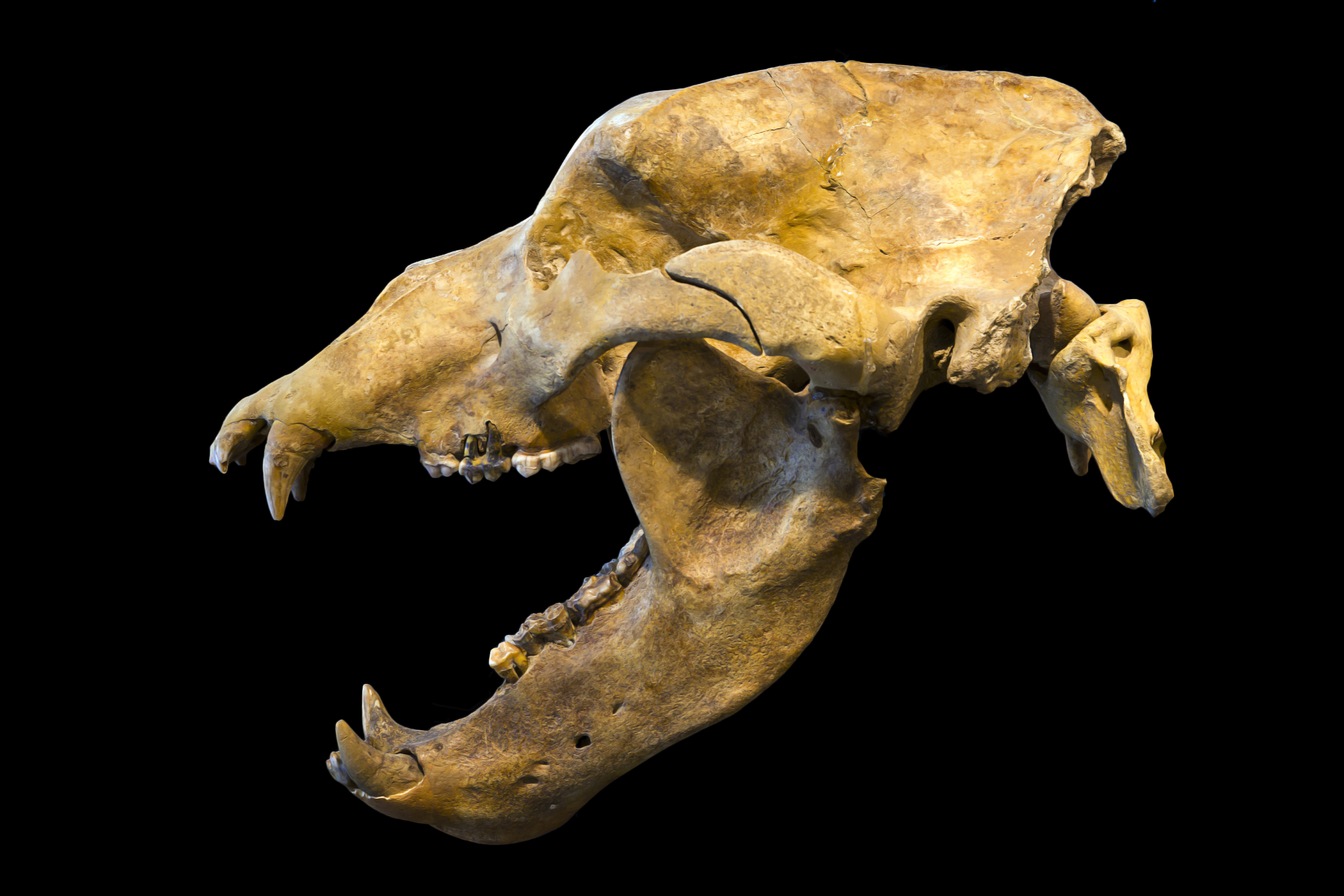 Cave bear ( Ursus spelaeus Rosenmüller, 1794) Skull Stage : 370 000 - 10 000 Years Pleistocene Locality : Yamalo-Nenetsky region, Siberia, Russia Size of skull : 57 cm